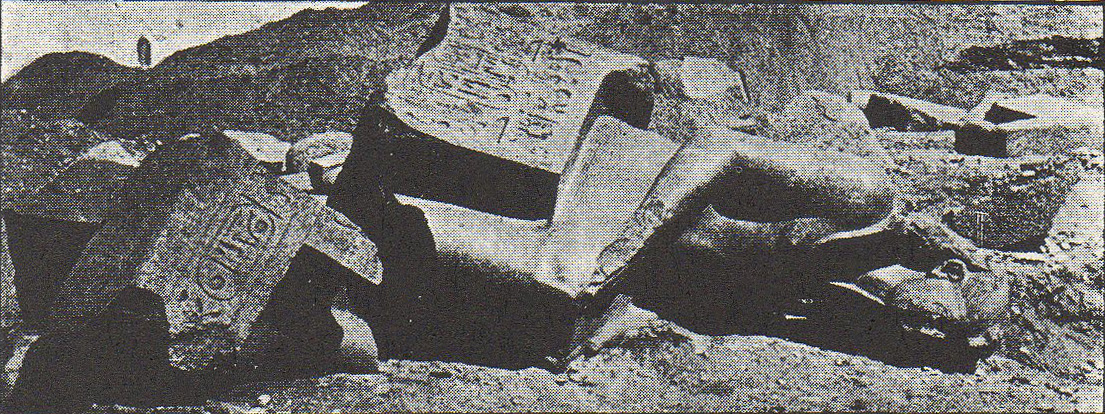 Photograph of a large syenite statue of Imyremeshaw during the 1897 excavations at the Great Temple of Tanis under the direction of Flinders Petrie. The statue, one of a pair, is now exibited in Cairo Egyptian Museum, and both (JE 37466-7) bears also the cartouches of later kings (Aaqenenre Apophis, Ramesses II).